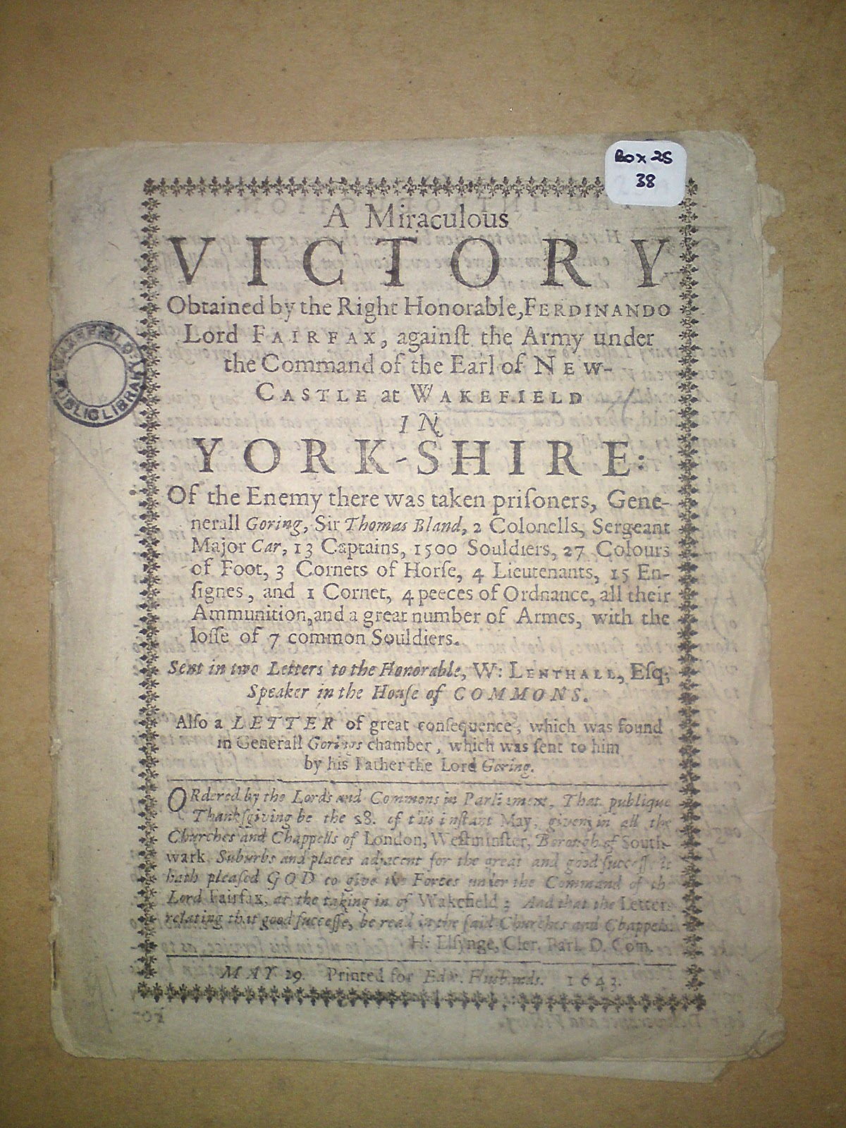 A Miraculous Victory obtained by the Right Honorable Ferdinando Lord Fairfax at Wakefield, a pamphlet published by parliament after their victory during the Capture of Wakefield. Propaganda was common during the English Civil War, and such reports were often heavily exaggerated.